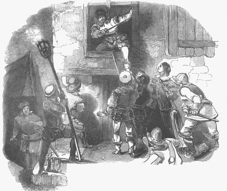 woodcut from John Foxe's 'Book of Martyrs': Richard Bertie, husband of Catherine Willoughby, Duchess of Suffolk, defending himself from an angry mob during their exile from Marian catholic England